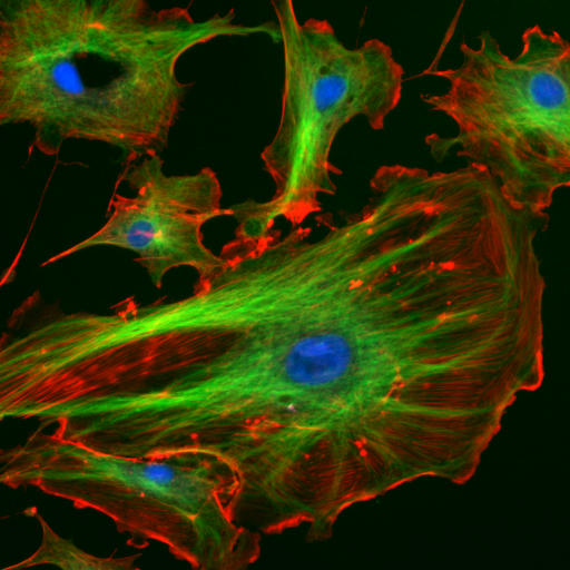 a This image is made from a Molecular Probes demo slide: Cells: bovine pulmonary arthery endothelial cells Blue: nucleus stained with DAPI Green: Tubulin (microtubles) stained with antibody Bodipy FL goat anti-mouse IgG (Indirect fluorescent antibody stain) Red: F-Actin stained with Texas Red X-Phalloidin